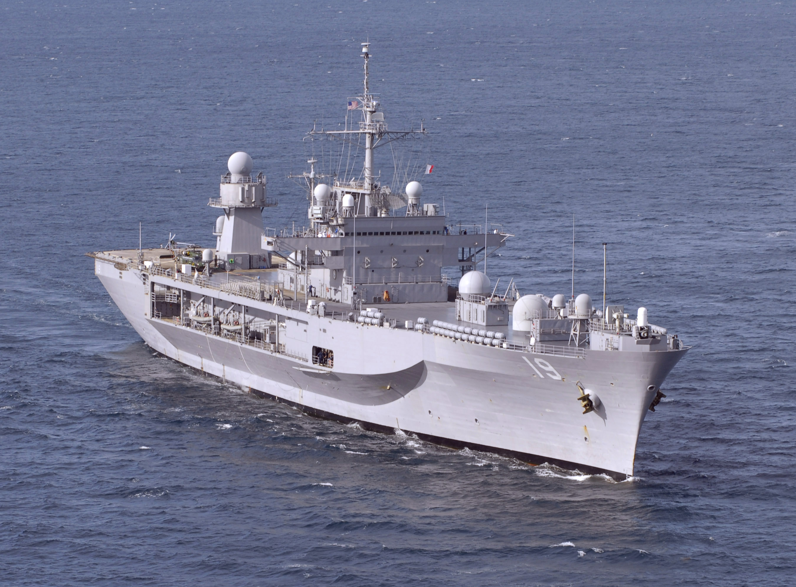 080530-N-6566M-022 SHIMIZU, Japan (May 30 2008) The amphibious command ship USS Blue Ridge (LCC 19) steams within sight of Mt. Fuji on its final stop to Shimizu, ending a six-week Spring Swing tour. Blue Ridge serves under Commander, Expeditionary Strike Group (ESG) 7/Task Force (CTF) 76, the Navy's only forward deployed amphibious force. U.S. Navy photo by Mass Communication Specialist 3rd Class Heidi McCormick (Released)